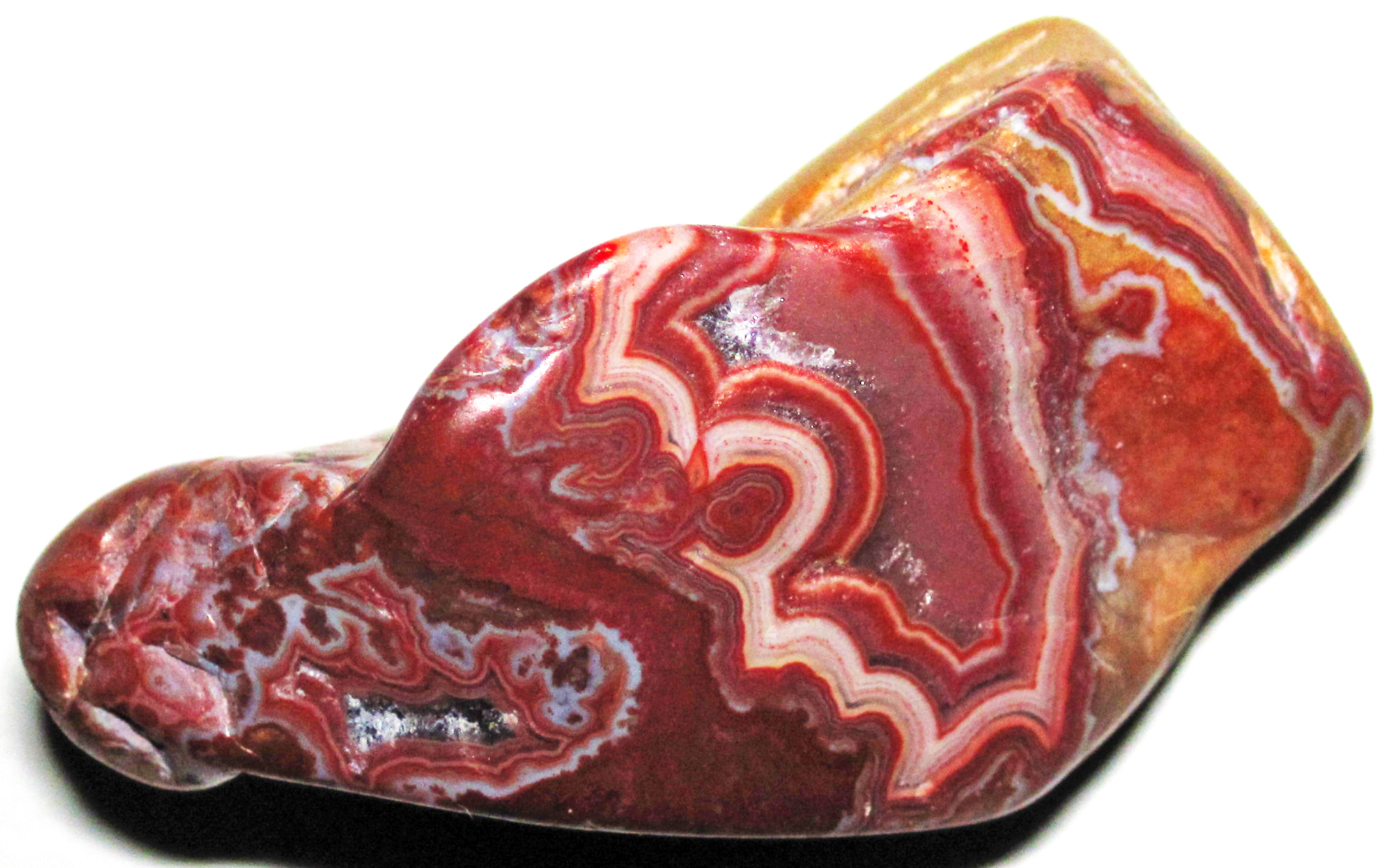 Agate ("Fairburn Agate") from South Dakota, USA. (~3.15 centimeters across at its widest) "Agate" is a rockhound/collector term for cavities in rocks (usually sedimentary rocks such as limestone or igneous rocks such as basalt) that have been partially or completely filled with irregularly concentric layers of microcrystalline, fibrous quartz (chalcedony - SiO2). Agate is quartz. Attractive, multicolored and multipatterned agate has long been collected from a large area near the towns of Fairburn and Interior and south of the town of Kadoka and in the White River Badlands. This region has surficial, loose, late Cenozoic-aged gravels derived from weathering and erosion of bedrock in the Black Hills. Some of this gravel is agate. The Fairburn-area agates are remarkably colorful and desirable. The highest-quality examples have sold in the past for between 10,000 and 20,000 American dollars. Studies have shown that Fairburn Agate is ultimately derived from limestones of the Minnelusa Formation (Upper Pennsylvanian to Lower Permian), which outcrops in the nearby Black Hills.